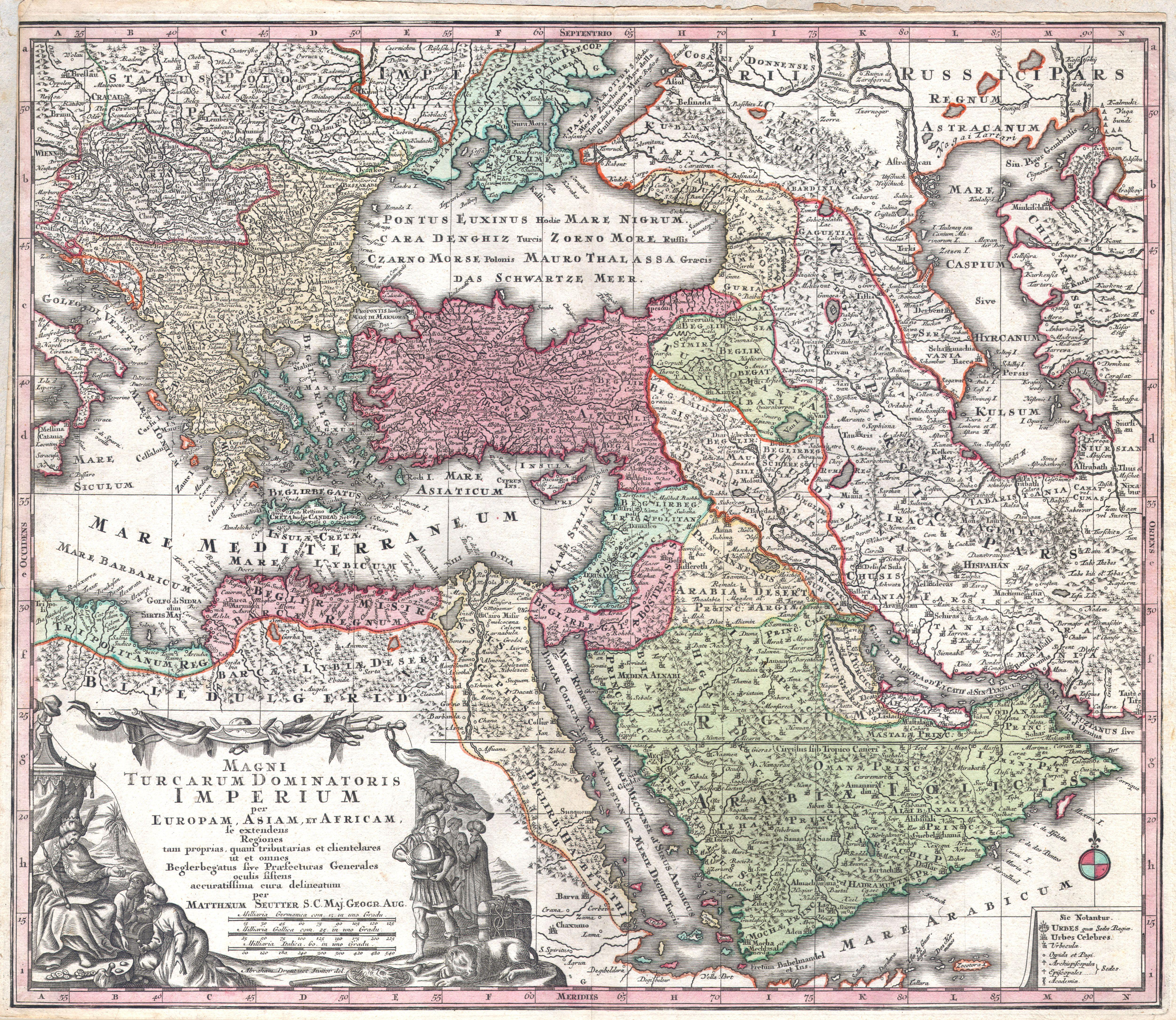 A spectacular c. 1730 map of the Ottoman Empire, including Greece, Turkey, Persia, Egypt and Arabia, by the important Augsburg map publisher Gerog Matthaus Seutter. Depicts from Italy eastward to the Caspian Sea, which is depicted in its entirety. Includes Crimea and the Caucuses: Georgia, Circassia and Armenia. Extends south to include all of Arabia and the northern tip of the Horn of Africa. Generally accurate with a few cartographic anomalies. The Dead Sea is over-large and misshapen. A large and nonexistent lake appears just west of the Nile Delta. In the lower left hand quadrant there is a large decorative title cartouche attributed to the Augsburg silversmith Abraham Drentwet. Depicts the ottoman Emperor gloriously robed with and enthroned. On the ground before him two men bow and offer hum treasures. The images on the right of the title offer a more allegorical references and include an European holding a globe, a lion, the Rod of Asclepius, a Medusa head shield and s spear. Angels with trumpets look on from above. A map key appears in the lower right quadrant. Cartographically similar to Visscher's 1690 map of the same area. This is a rather unusual state of the map and one of the few examples wherein S.G. Maj Geogr. Aug follows Seutter's name in the title cartouche. The only comparable example we have found is in the British Museum.